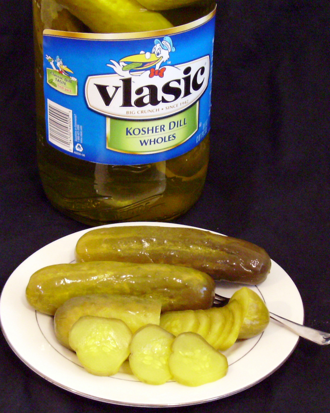 A jar and plate of Vlasic brand pickled cucumbers